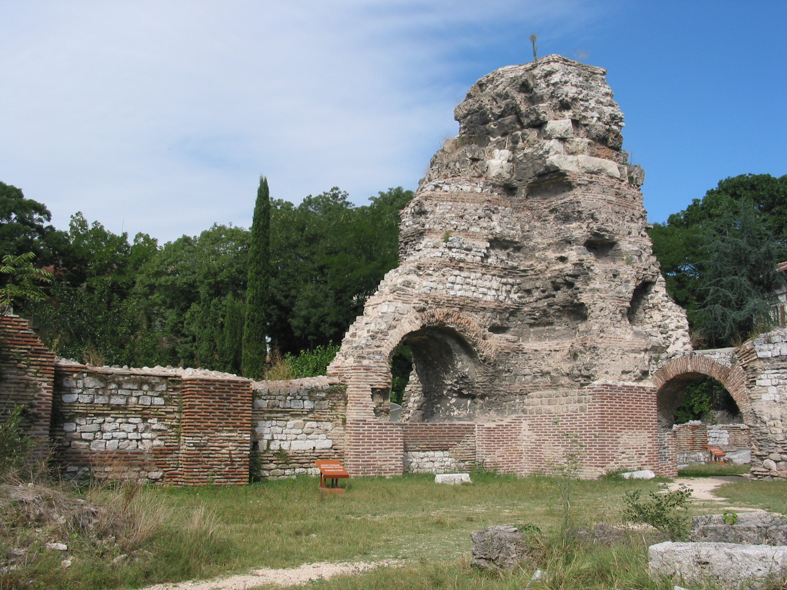 Roman excavation, Varna 2005 selfmade photo